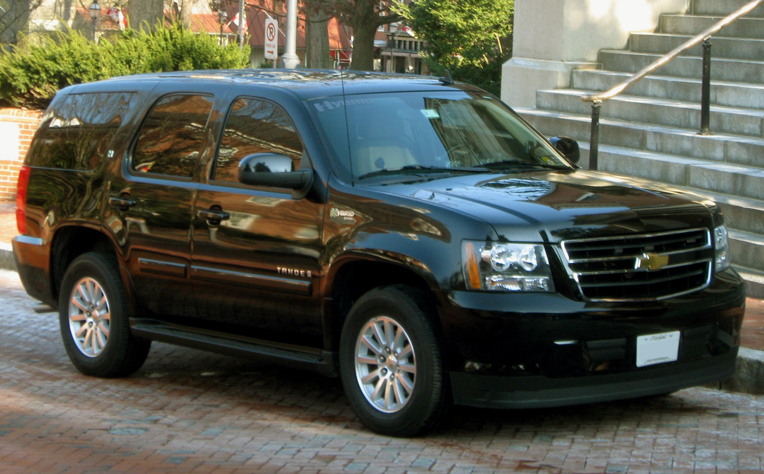 Chevrolet Tahoe Hybrid used by Maryland Gov. Martin O'Malley parked outside the State House building in Annapolis, Maryland, USA.